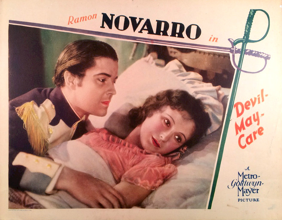 Lobby card for the American musical romance film Devil-May-Care (1929). There are no copyright marks on the card. At bottom left is Country of origin USA.